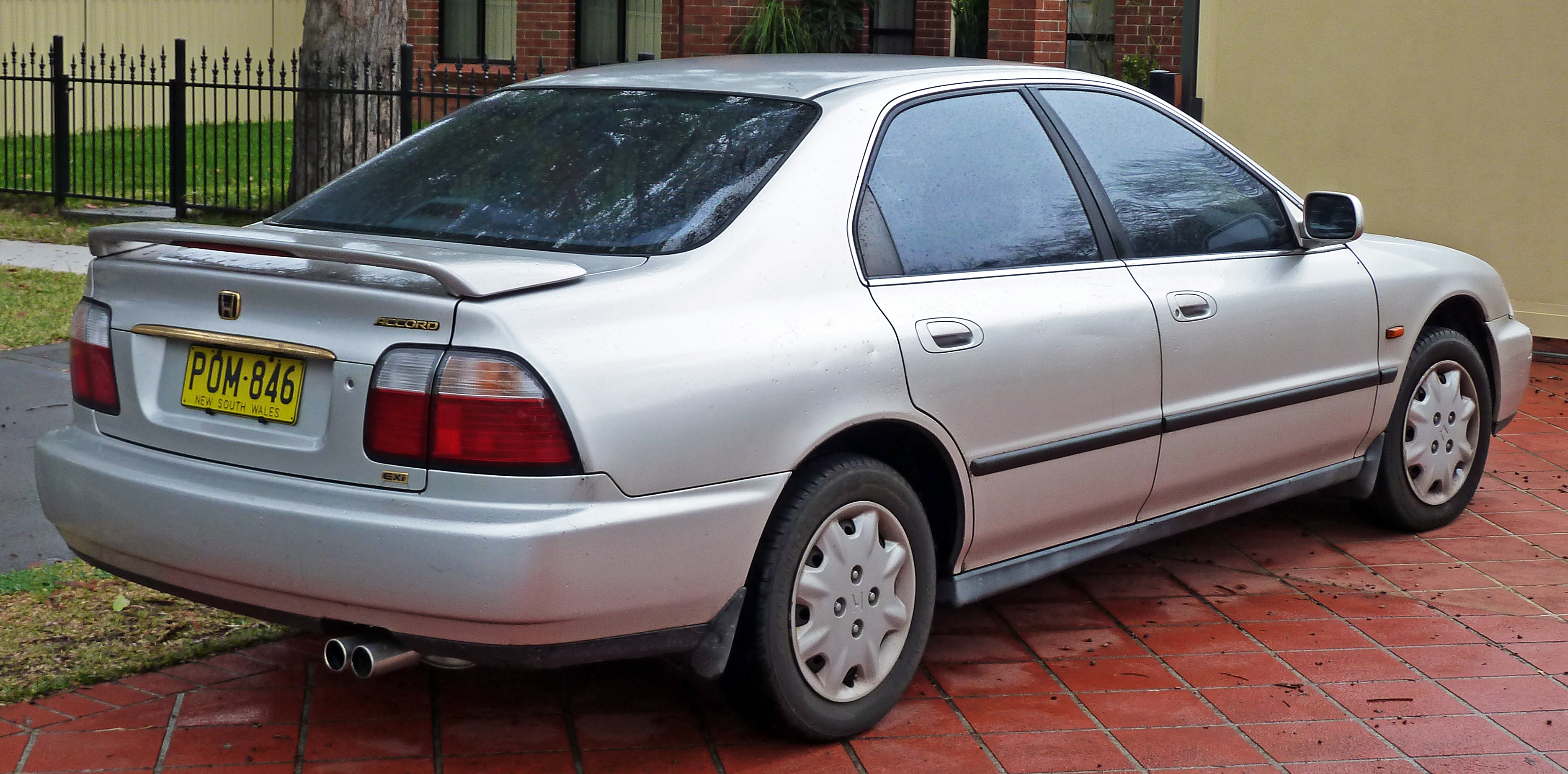 1995–1997 Honda Accord EXi sedan. Photographed in Miranda, New South Wales, Australia.